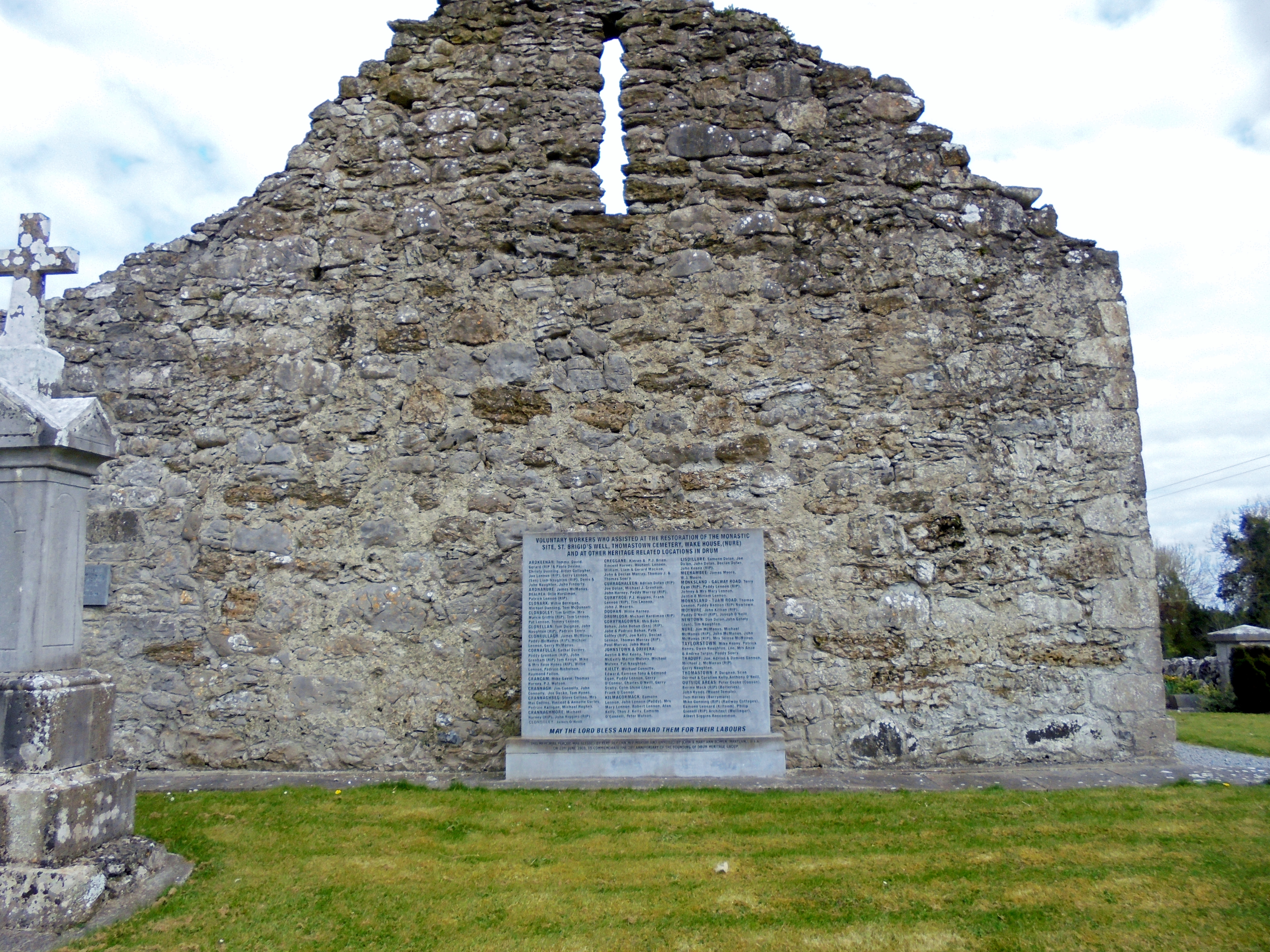 Monastery Ruins